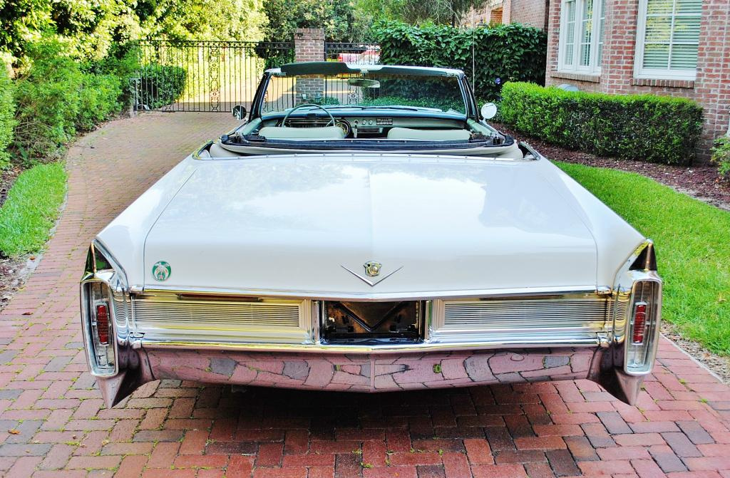 This is a picture of a vehicle (name of it is on the file name).